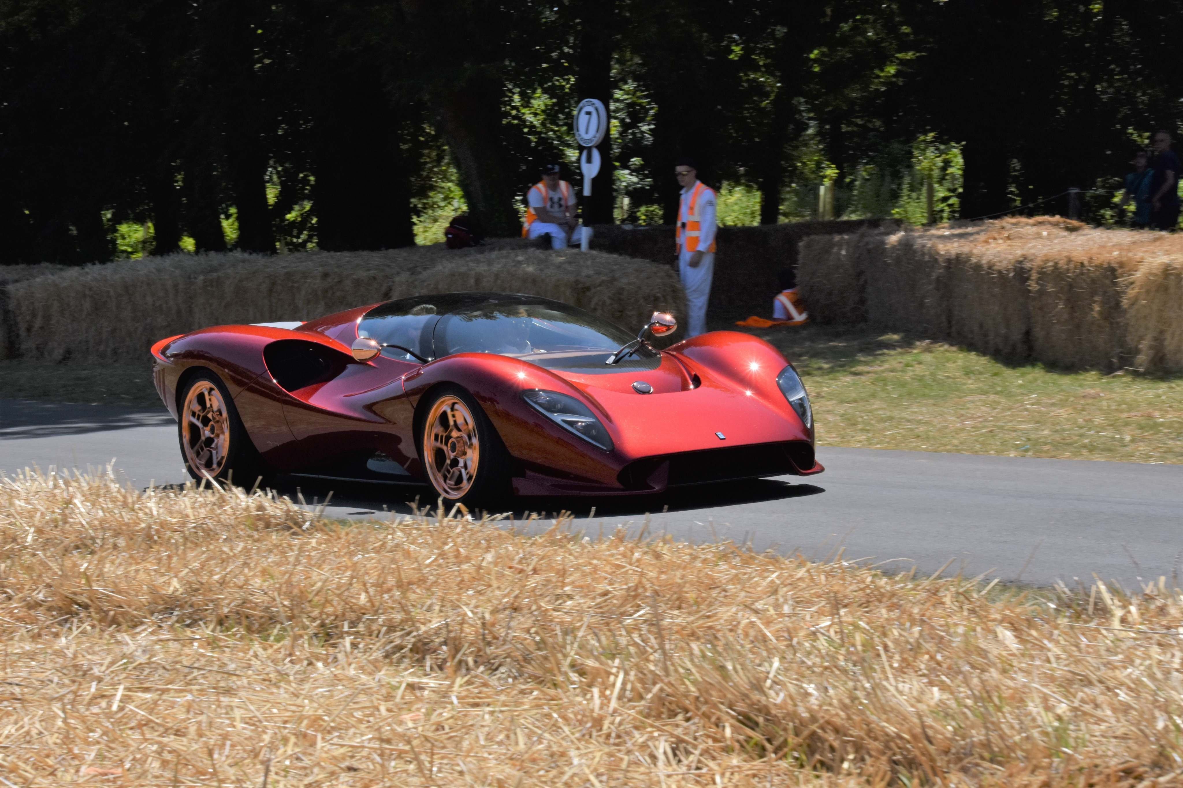 The De Tomaso P72 featuring at the Goodwood Festival of Speed 2019